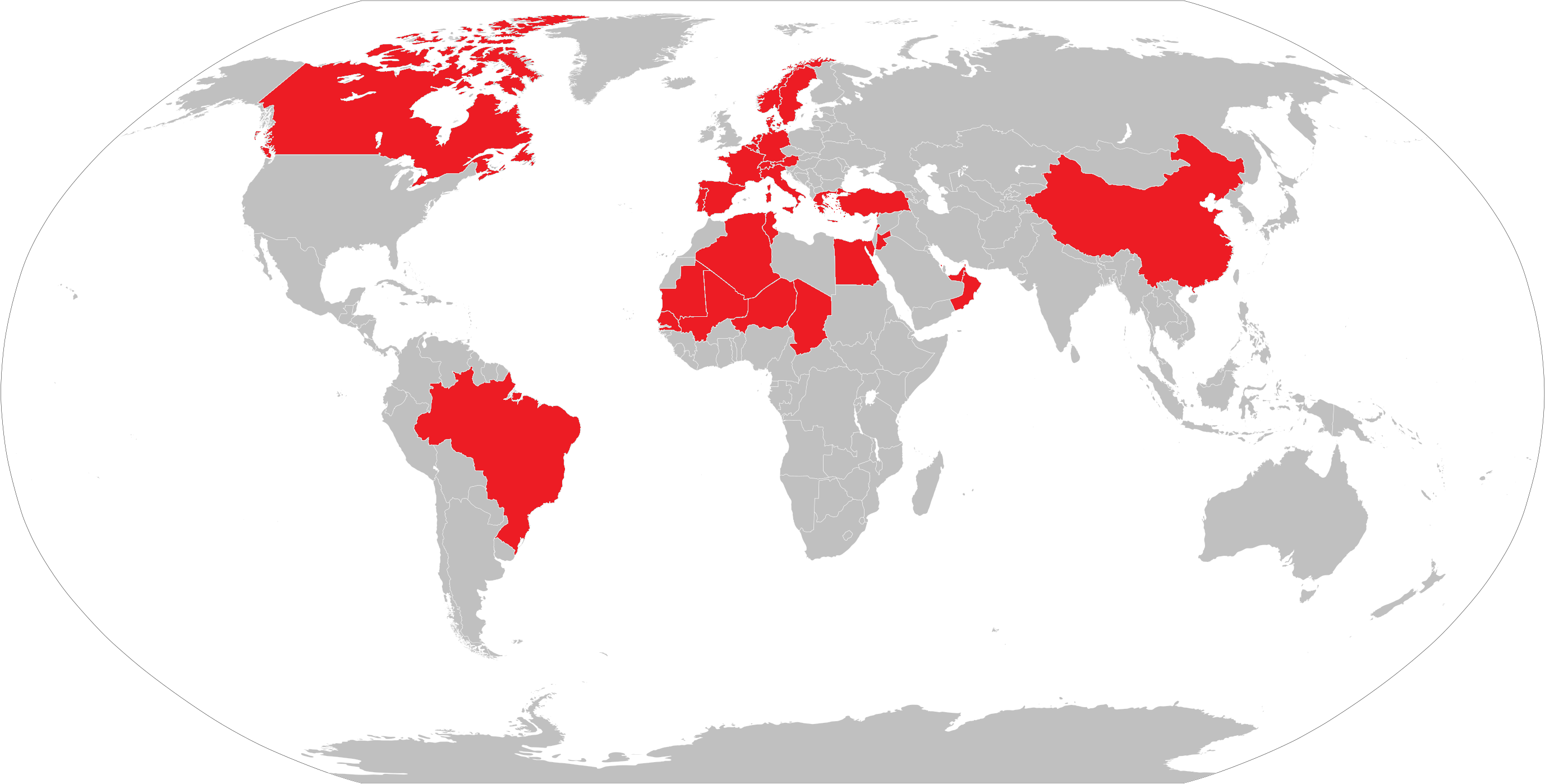 Countries that Morocco banned its citizens from travelling to